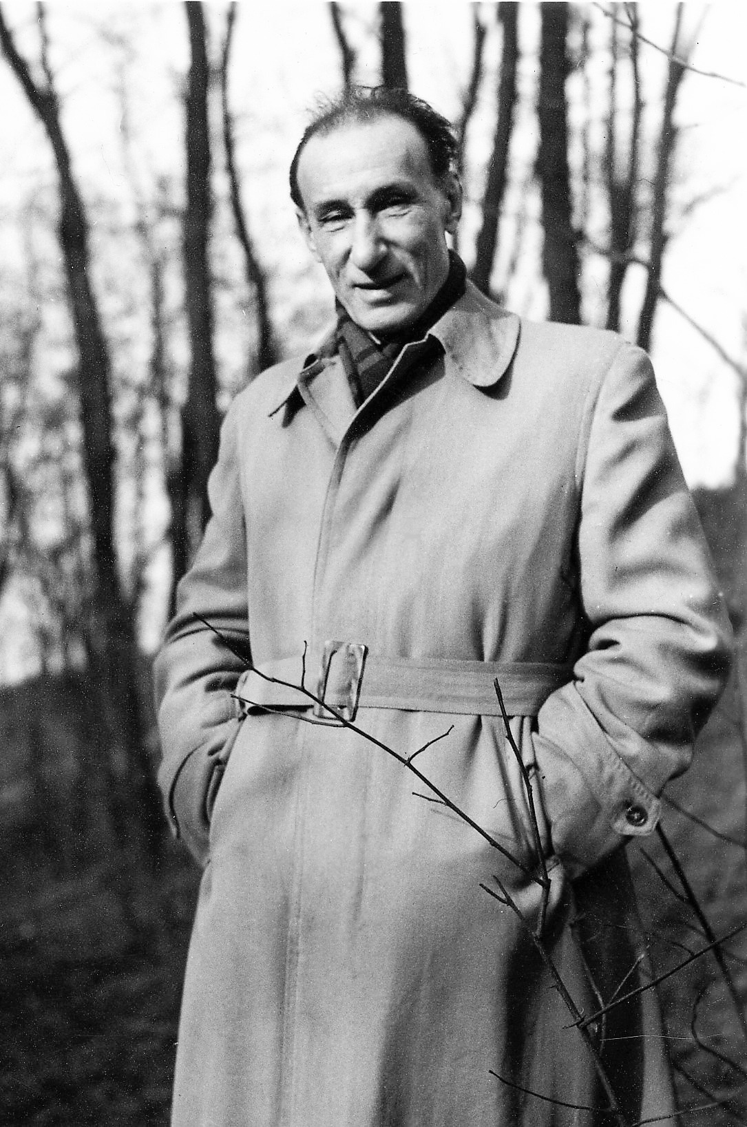 Writer Konstantin A. Chkheidze on the Slavín Hill in Roudnice nad Labem, Czechoslovakia, sixties, 20th-century